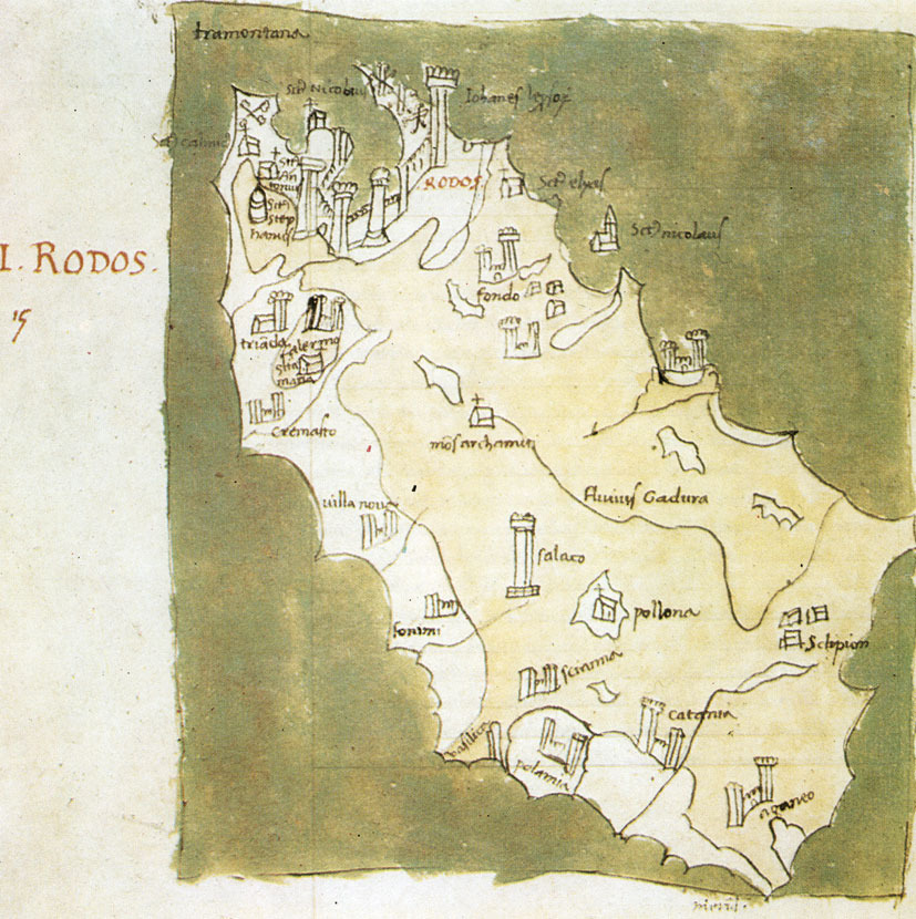 Cristoforo Buondelmonti, Liber Insularum Archipelagi (1420), Rhodes island, Aegean Sea